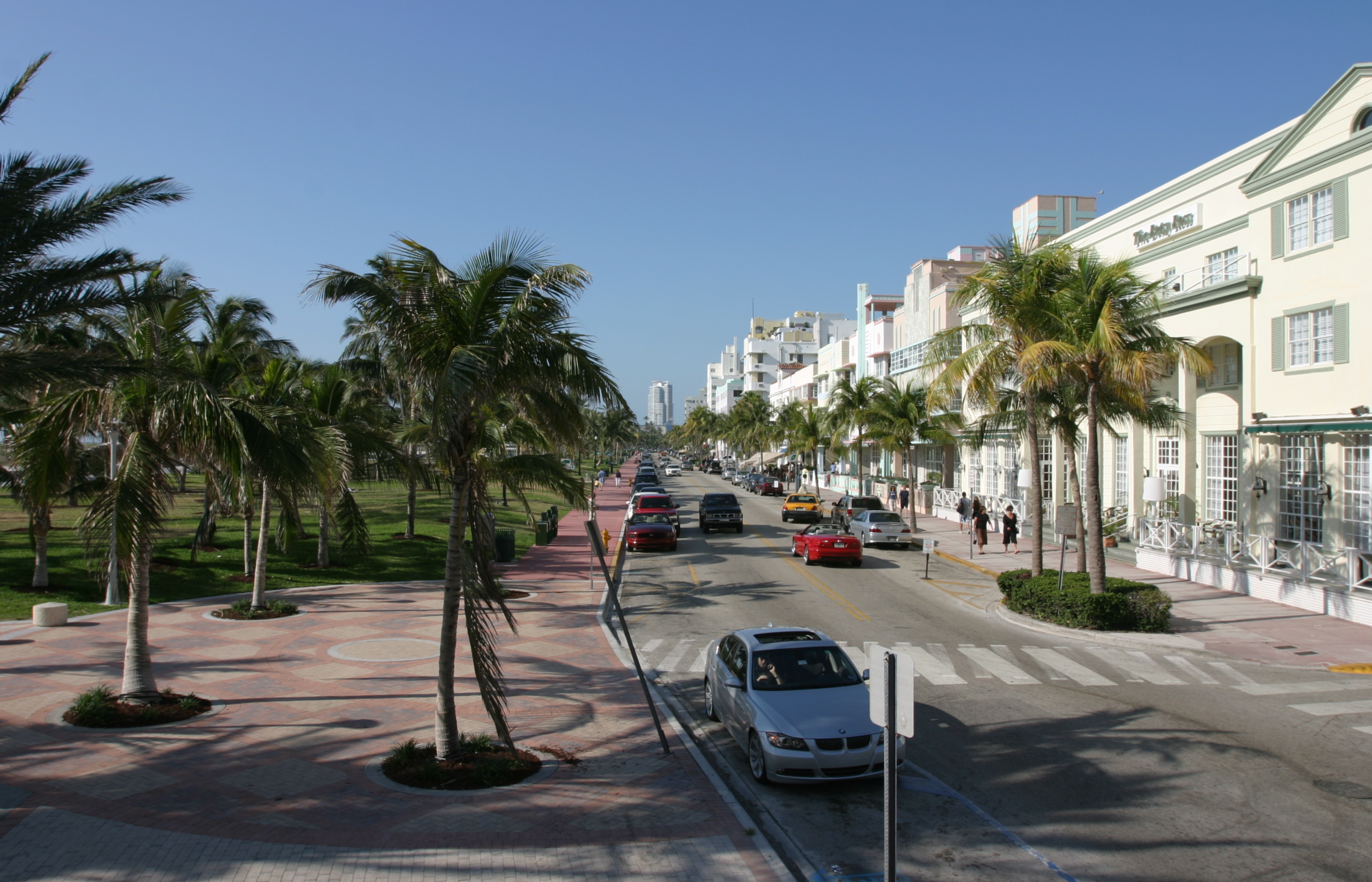 Ocean Drive — South Beach, seen looking south from the northern end of Ocean Drive.